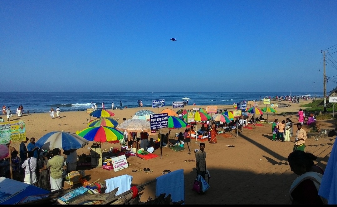 Vavubali at varkala Beach